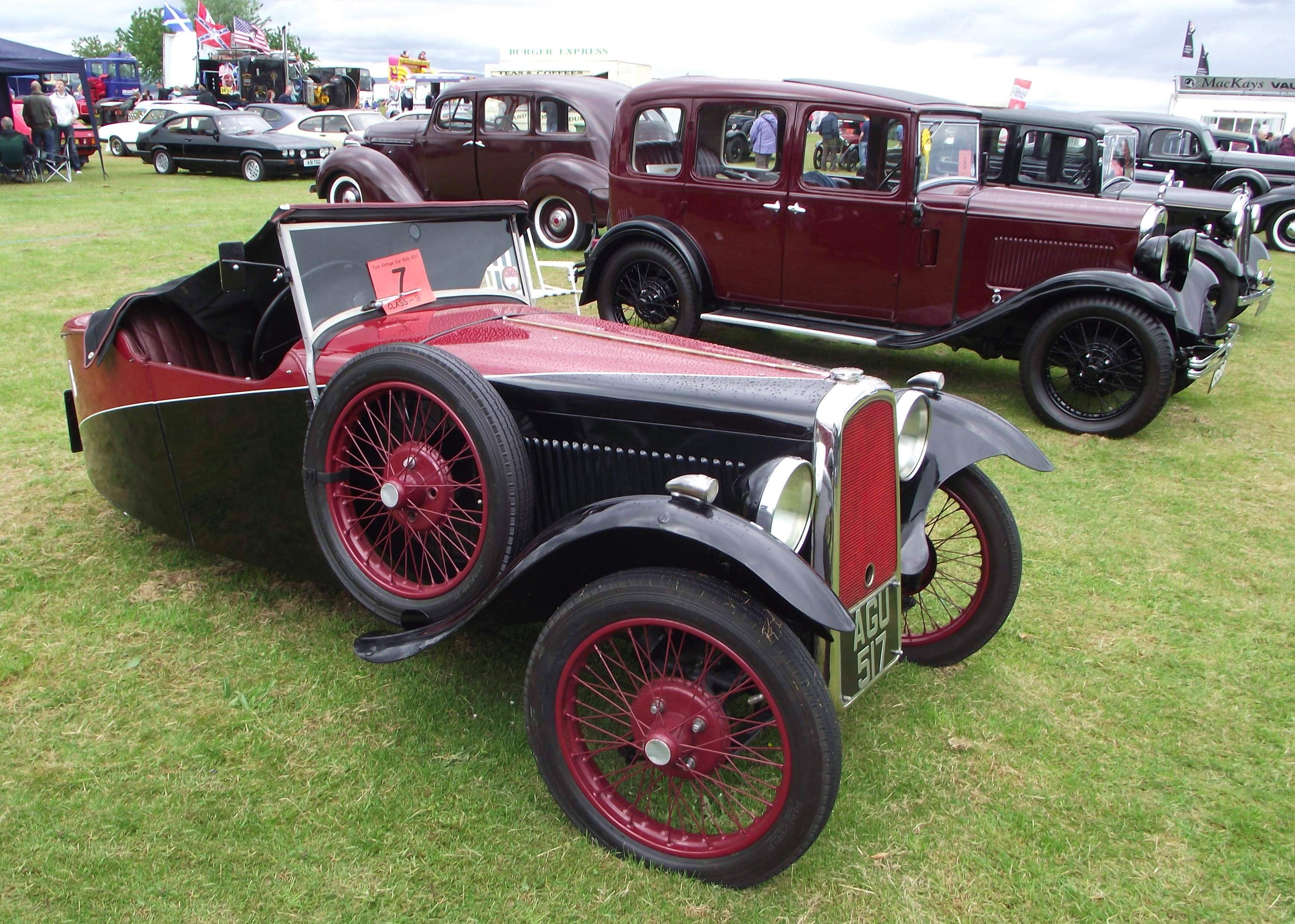 1932 BSA Three Wheel Car (DVLA) first registered 10 May 1933, 1075 cc The Links, Tain, Ross-shire on Sunday 19/6/11